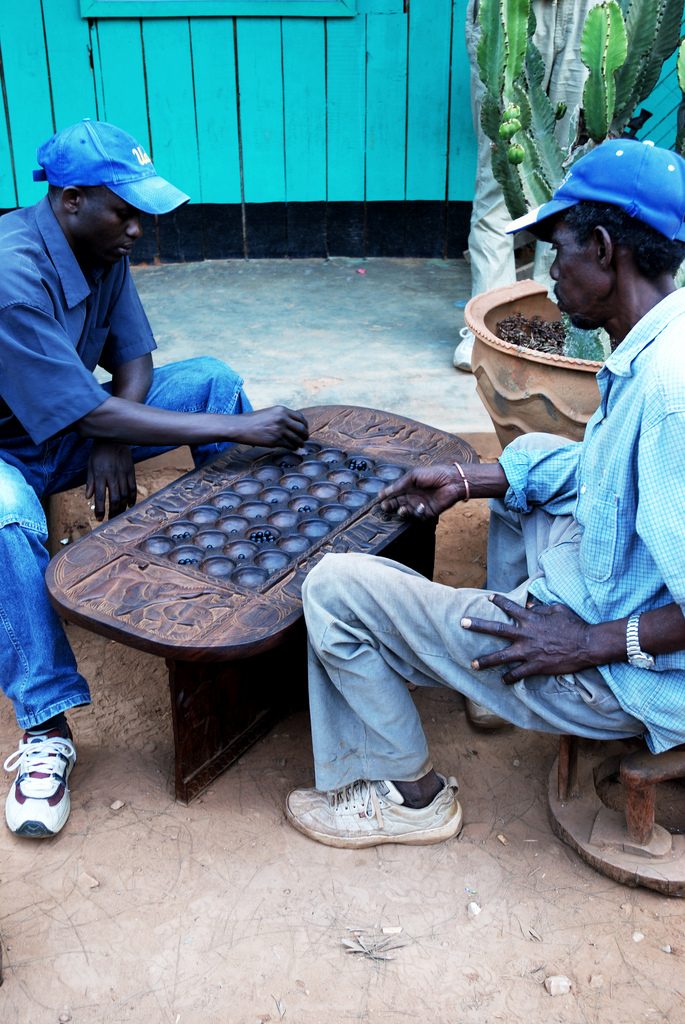 Omweso (or Igisoro) players in Kigali, Rwanda. Omweso is the traditional mancala of the Baganda people (Uganda). In Rwanda, a very similar game is called Igisoro. As this picture was taken in Kigali, it's likely that they were playing Igisoro. Igisoro and Omweso have the same board, same numbers of seeds, and the rules are very much alike.